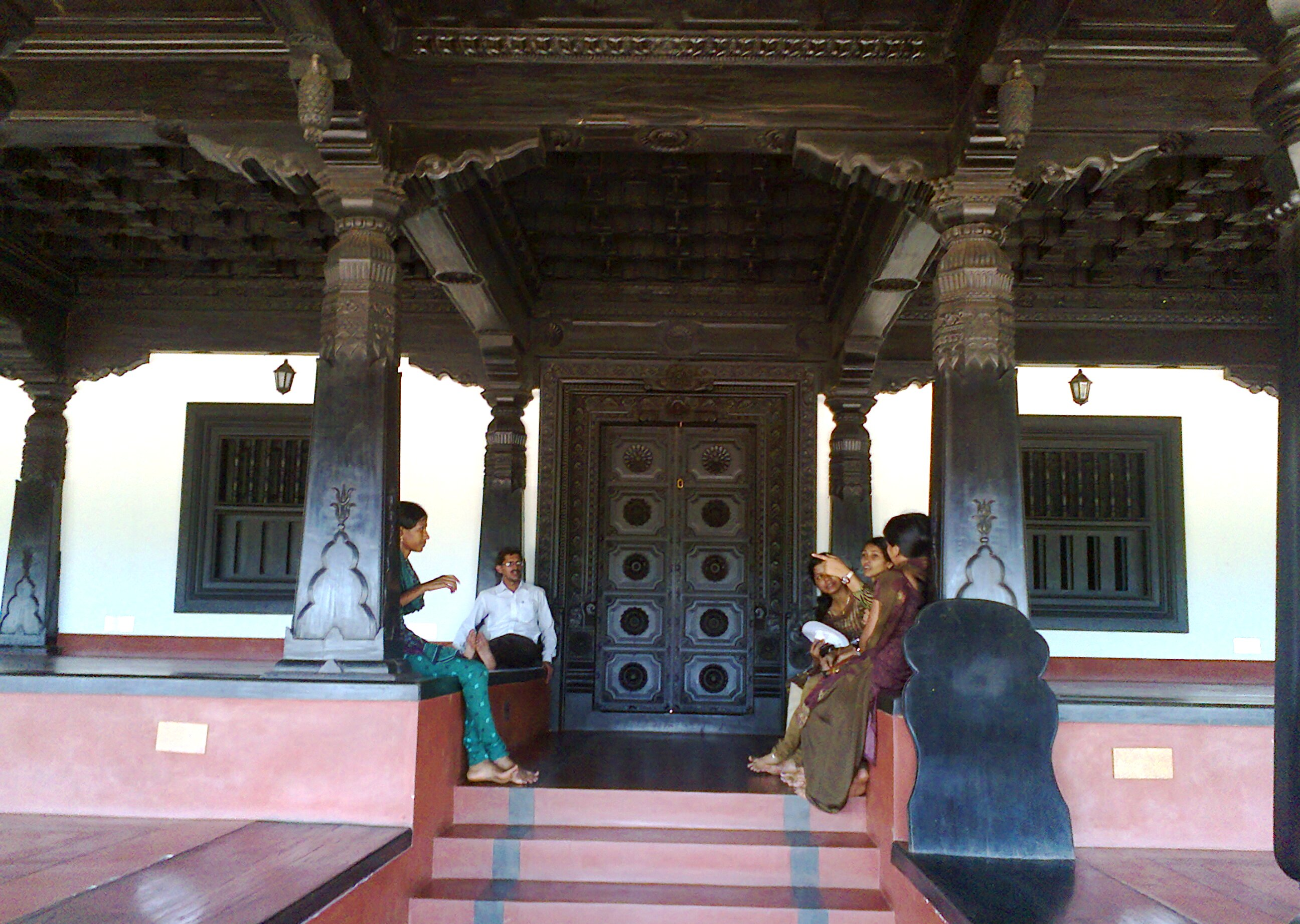 pilikula nisargadama at mangalore karnataka